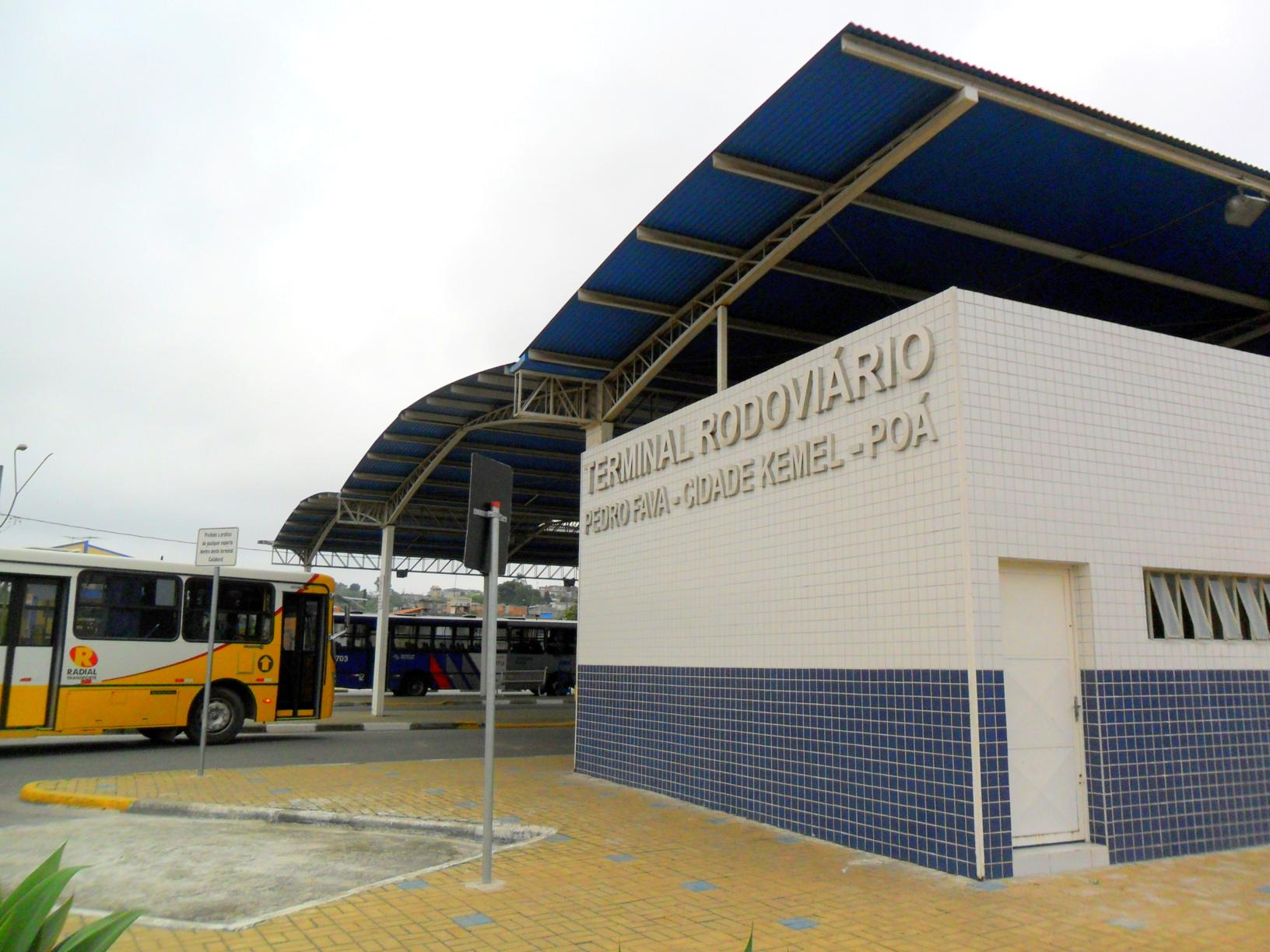 Pedro Fava - Cidade Kemel Bus Terminal